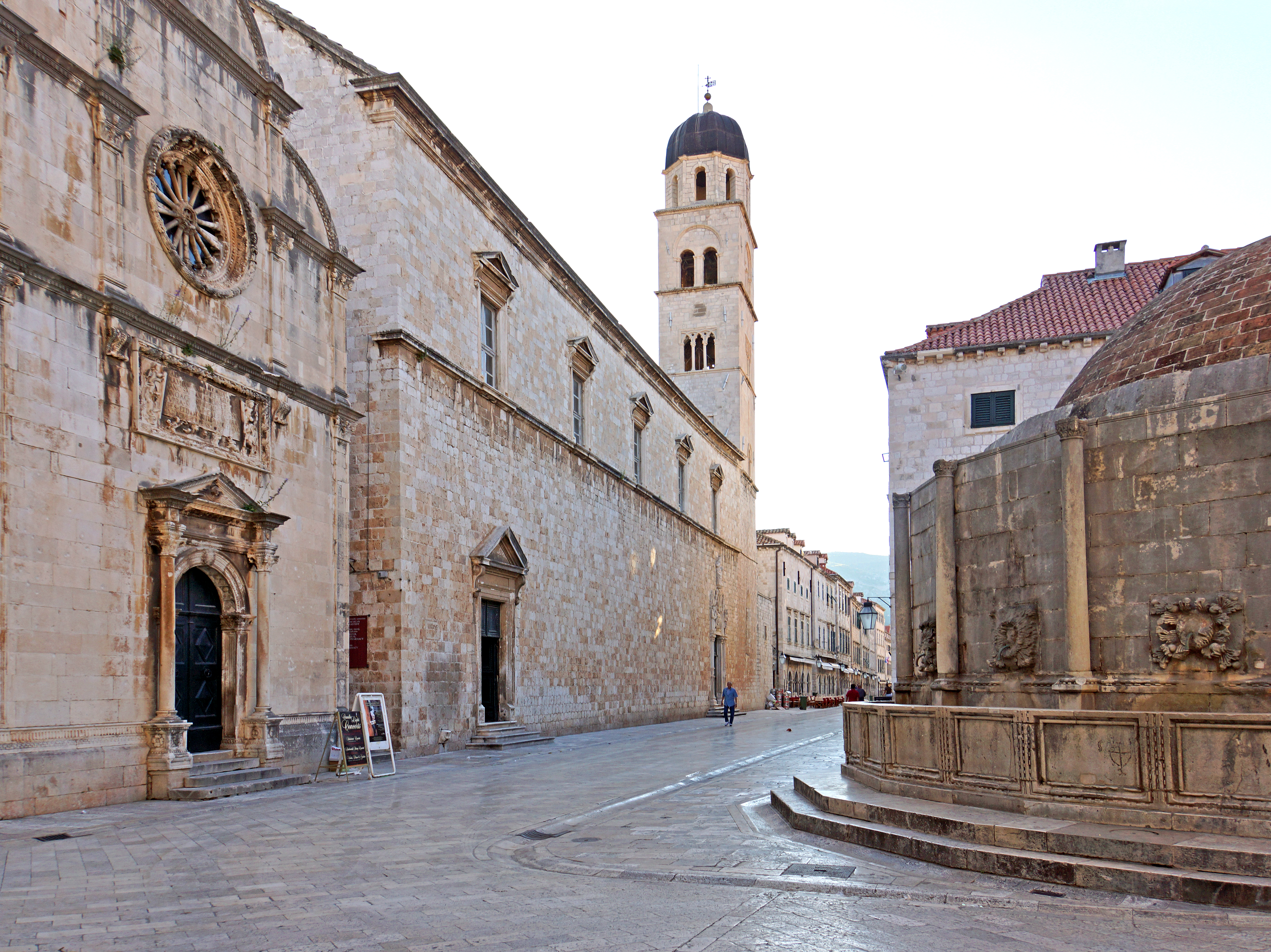 PLEASE,invitations or self promotion in your comments, THEY WILL BE DELETED. My photos are FREE for anyone to use, just give me credit and it would be nice if you let me know, thanks - NONE OF MY PICTURES ARE HDR. The Franciscan monastery is situated on the left (where the man is). The facade of the monastery church runs along Stradum street and the monastery also goes north along the old city walls as far as the tower Minčeta. Church of Holy Savior is on the left front. Big Onofrio's Fountain is on the right.